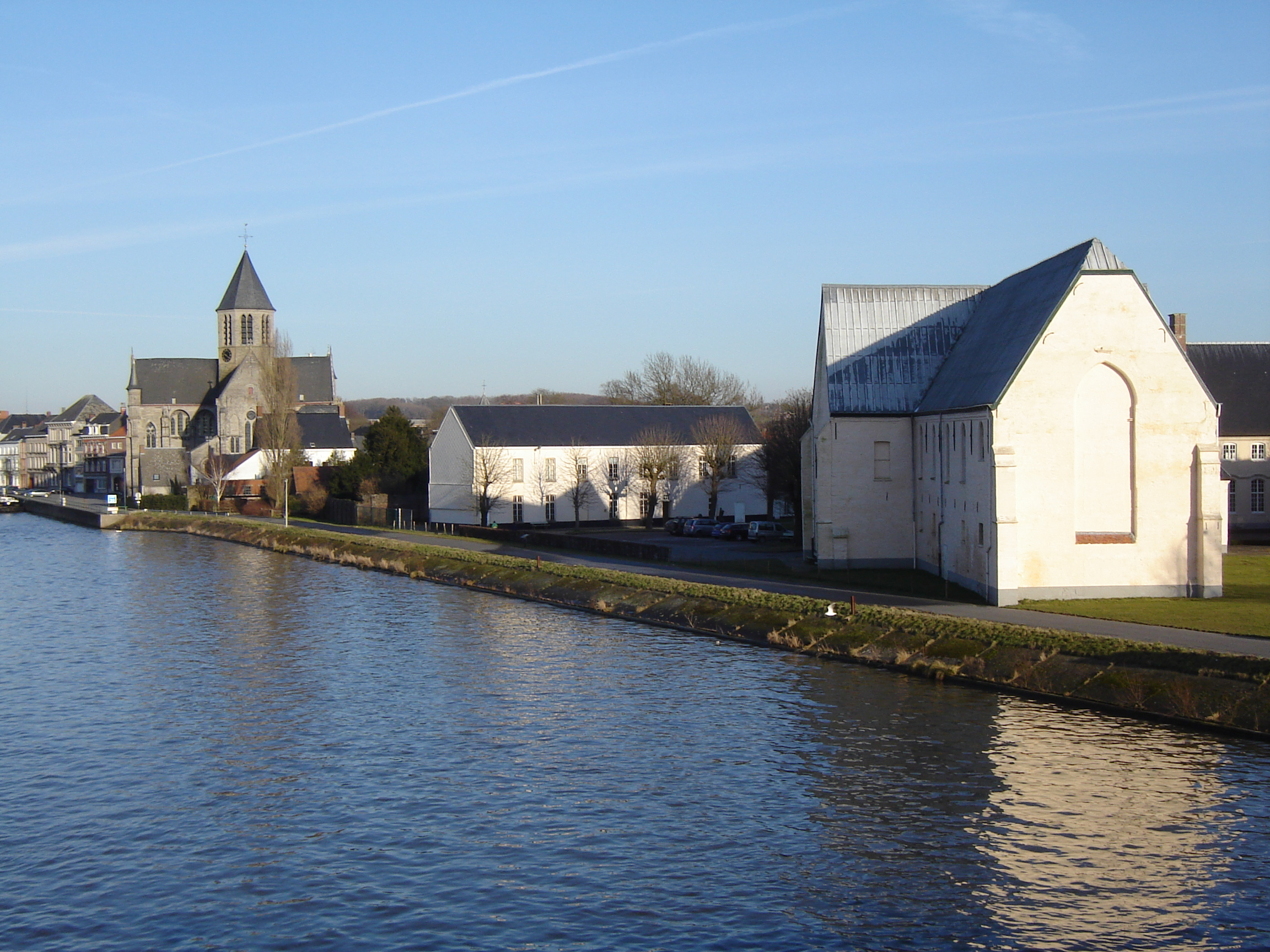 View on Pamele, Oudenaarde and the river Scheldt, with its church of the Nativity of Mary and the abbey Abdij van Maagdendale. Oudenaarde, East Flanders, Belgium